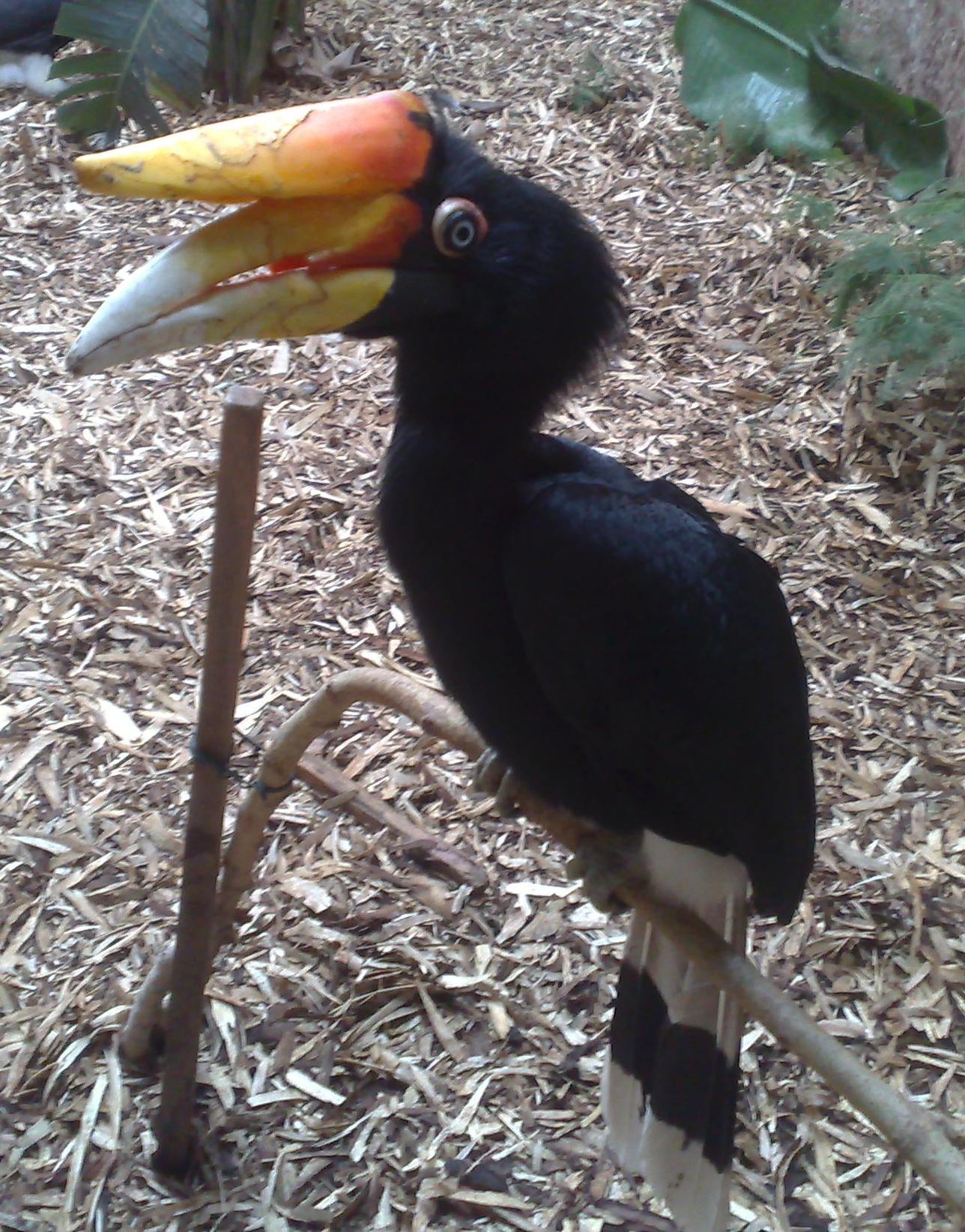 Rhinoceros Hornbill (Buceros rhinoceros) at Chester Zoo, England.